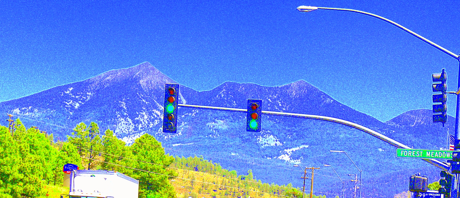 The image was personally taken and modified by me. Wars 07:16, 26 June 2006 (UTC)